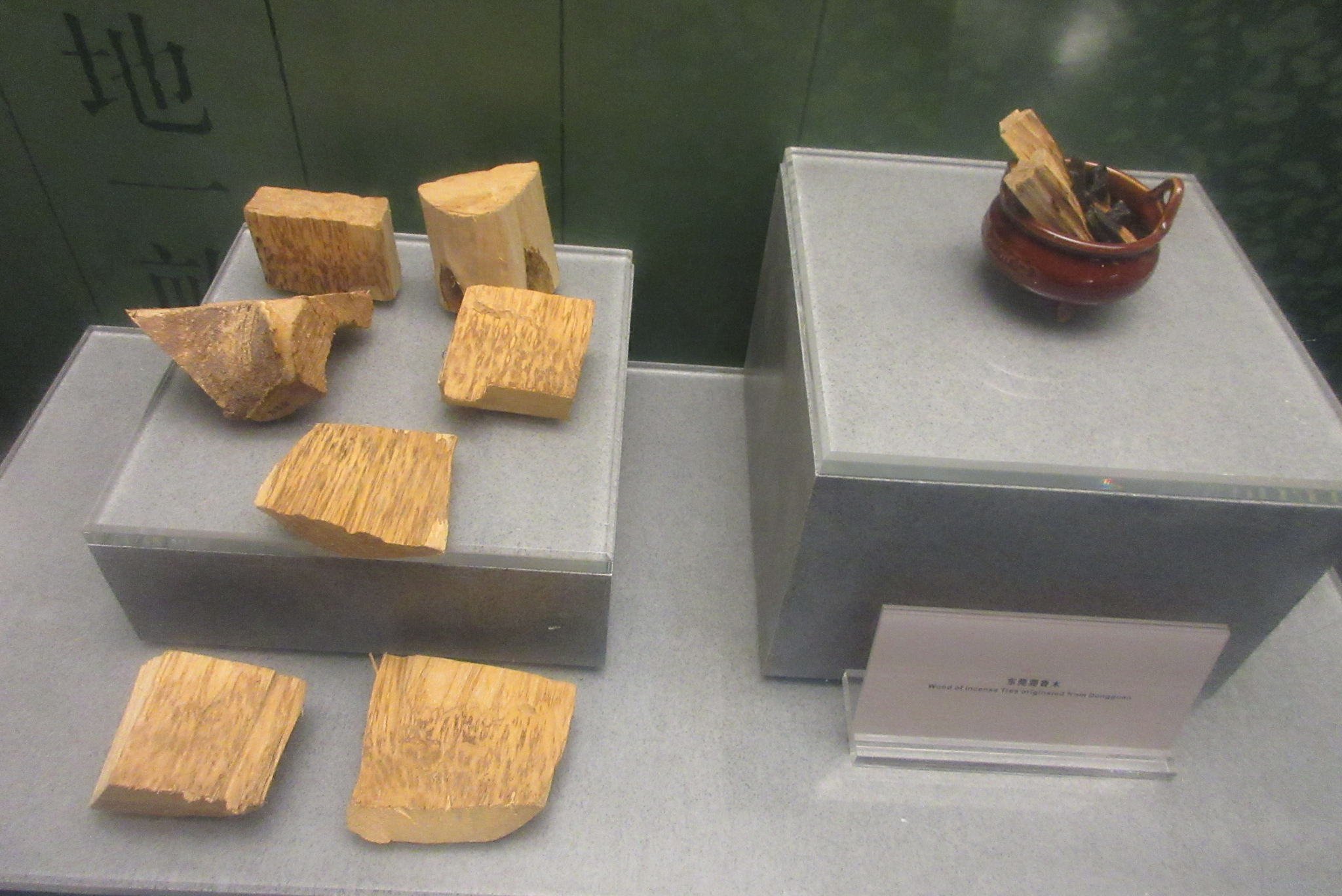 SZ Shenzhen Museum exhibit Aquilaria agallocha 沉香木 Agilawood 沉香屬 Aquilaria in November 2017